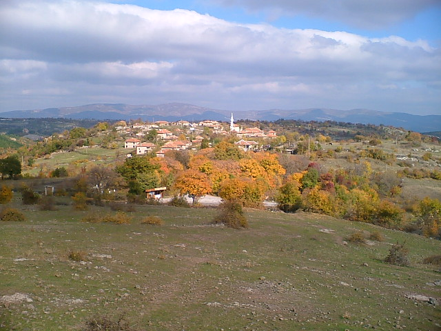 Vrelo (Taşkınlar) village, Momchilgrad.